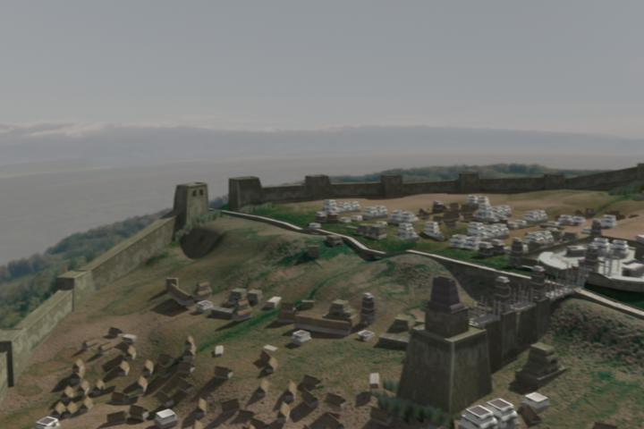 A modern artist's interpretation of the ancient city of Bountiful described in the Book of Mormon